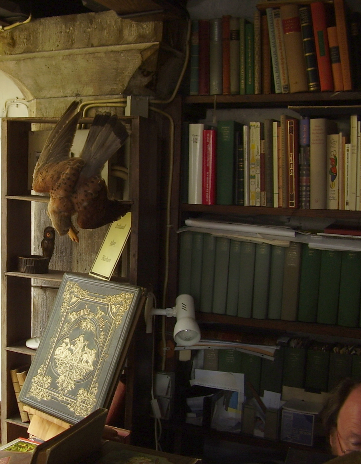 Braunschweig (City) — Antiquariat am Burgplatz — Interior view/a